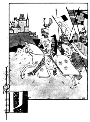 An illustration to a poem «The Song of Roland» by Ukrainian artist Heorhiy Narbut.